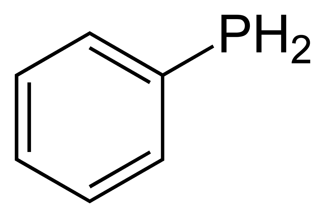 Skeletal formula of the phenylphosphine molecule, PhPH2